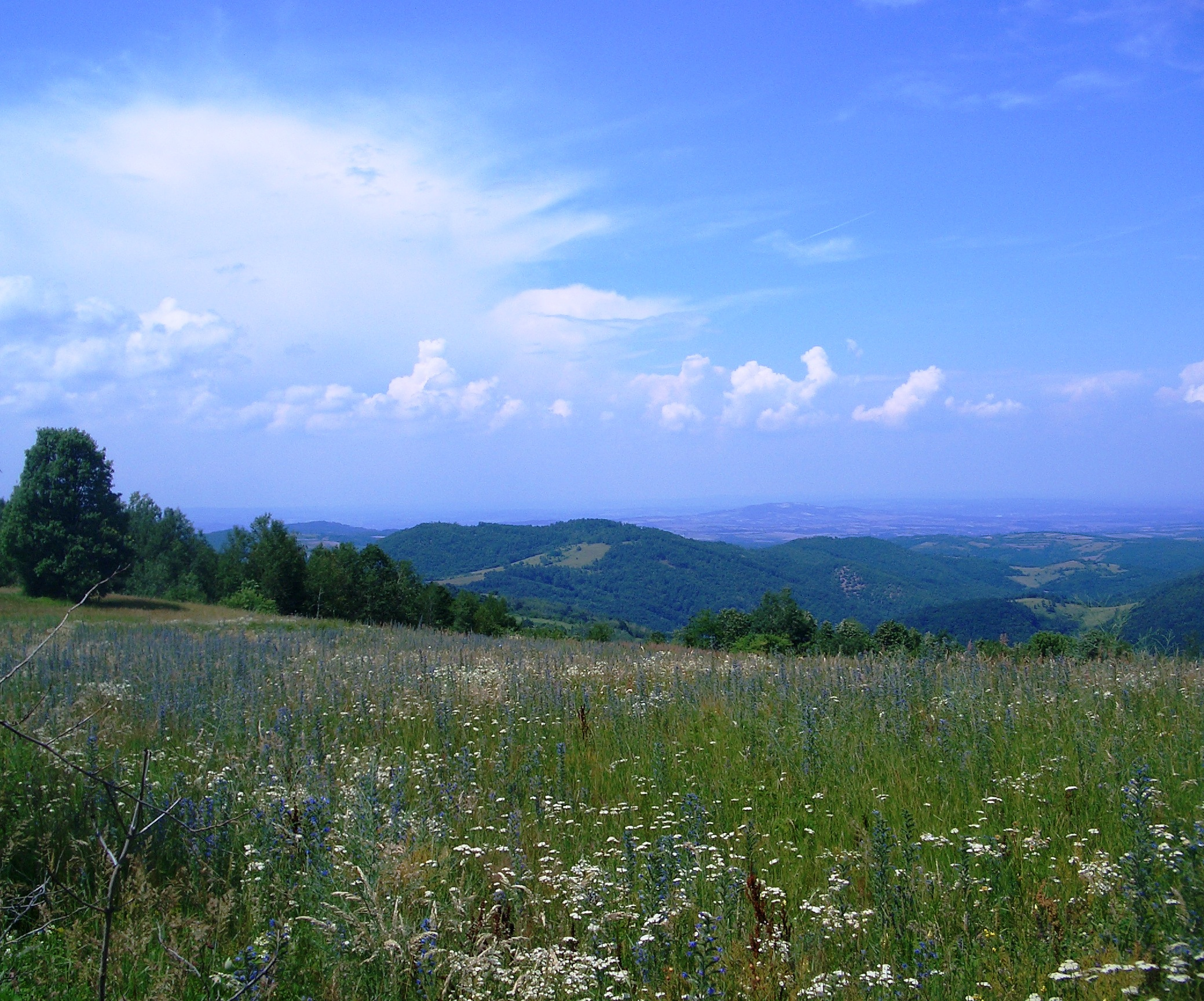 A spring meadow in Šumadija, near Kragujevac, Serbia